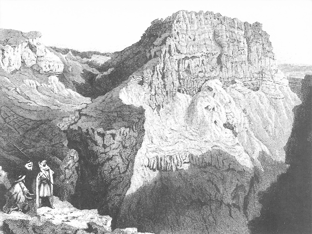 Engraving, view of Masada from South.